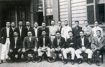 This picture is Kotora Tanahashi(1889-1973) in 1922.